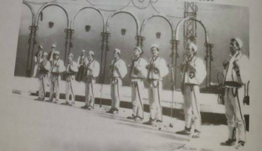 Kukes